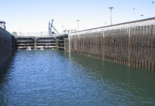 Inside of one of the Soo Locks at Sault Saint Marie Michigan. The lock is drained of water and close while filling.